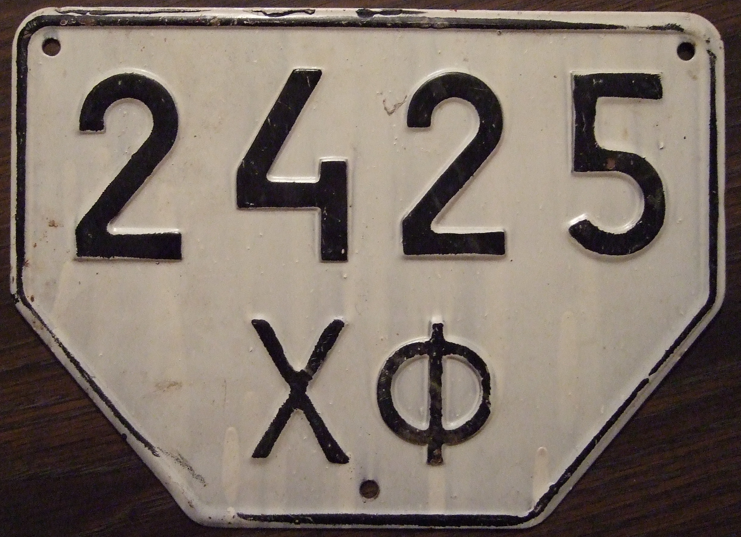 Former USSR heavy tractor license plate from Cherkassy Oblast (province) in the former Ukrainian SSR. 1980 series. This plate was used in the district of Korsun-Shevchenkivskyi a region which is in the Cherkassy Oblast. Soviet tractor plates were a little shorter than truck tractor (semi) plates and the cut corners were at a steeper angle than truck tractor plates. I could not find the code letters for this plate but it just arrived from Cherkassy Oblast in the above mentioned district in the Ukraine where it was used there. Smaller agricultural tractors were issued motorcycle sized black on yellow rectangular in Soviet days. See this set for more USSR plate pics.